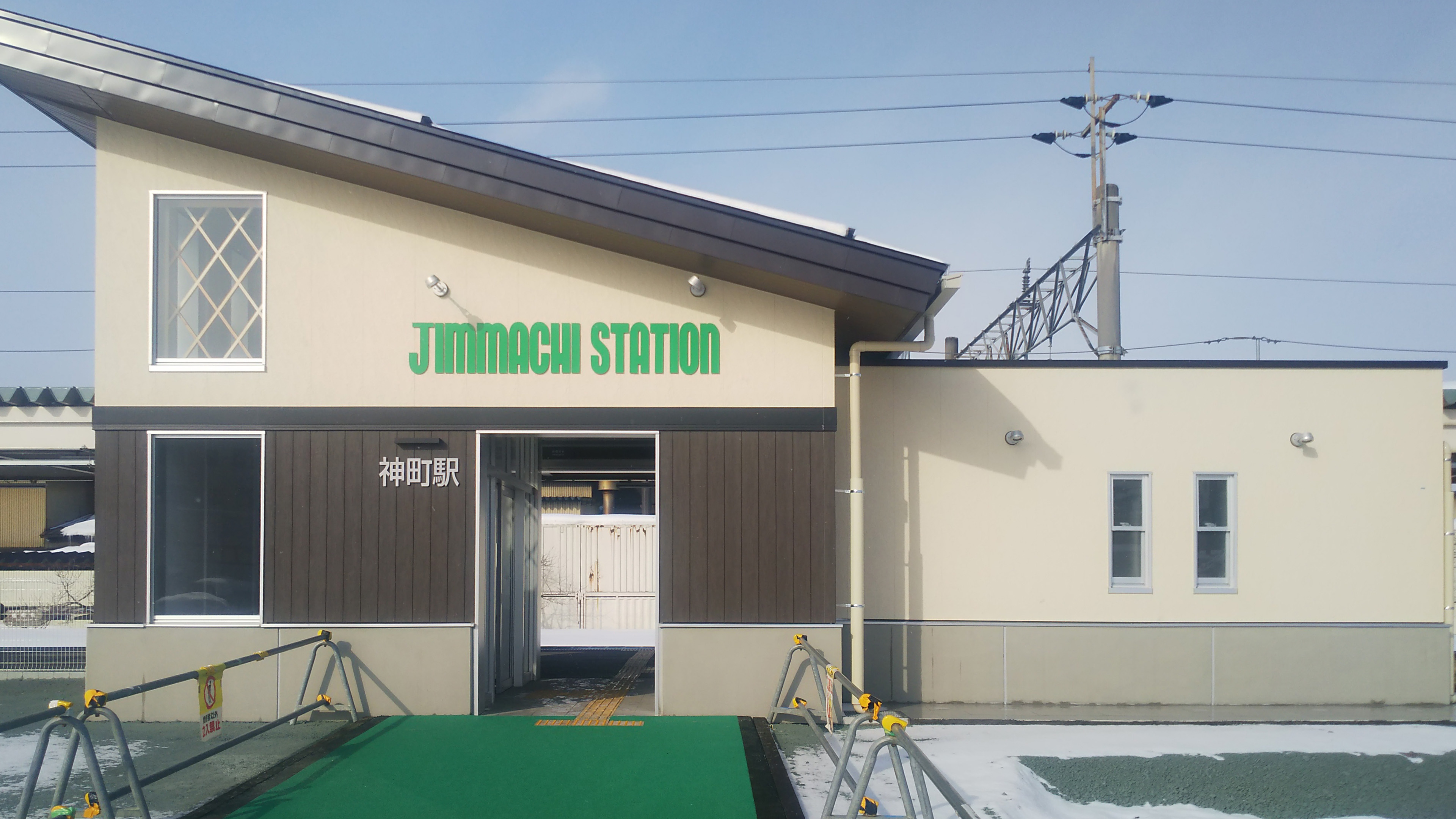 Jimmachi Station following rebuilding on the Ou Main Line in Yamagata Prefecture, Japan